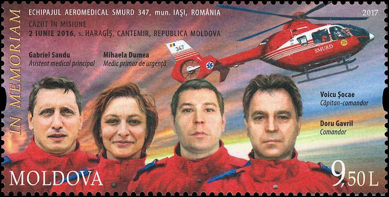 Members of the «SMURD» Emergency Rescue Team 347 from Iași, Romania. Issue: In Memory of the «SMURD» Emergency Rescue Team Killed in Moldova in 2016